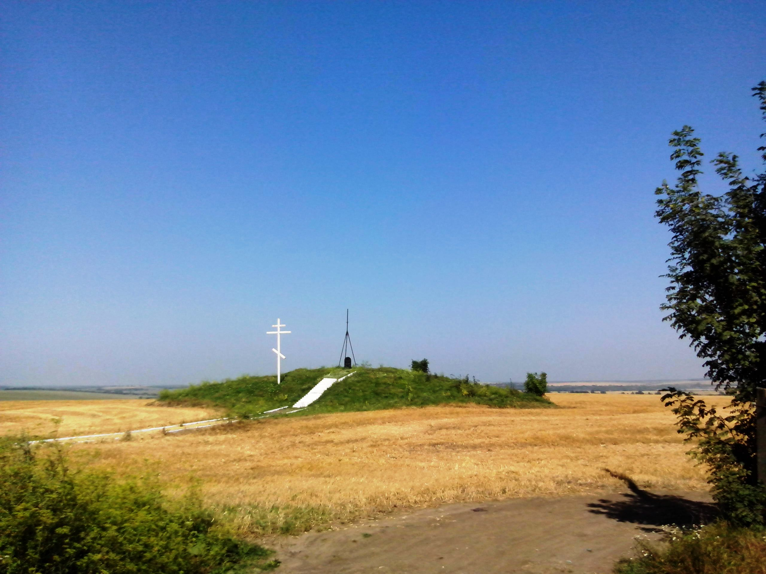 Сommemorative plaque of Struve Geodetic Arc in Felshtyn, not far from Hvardiyske